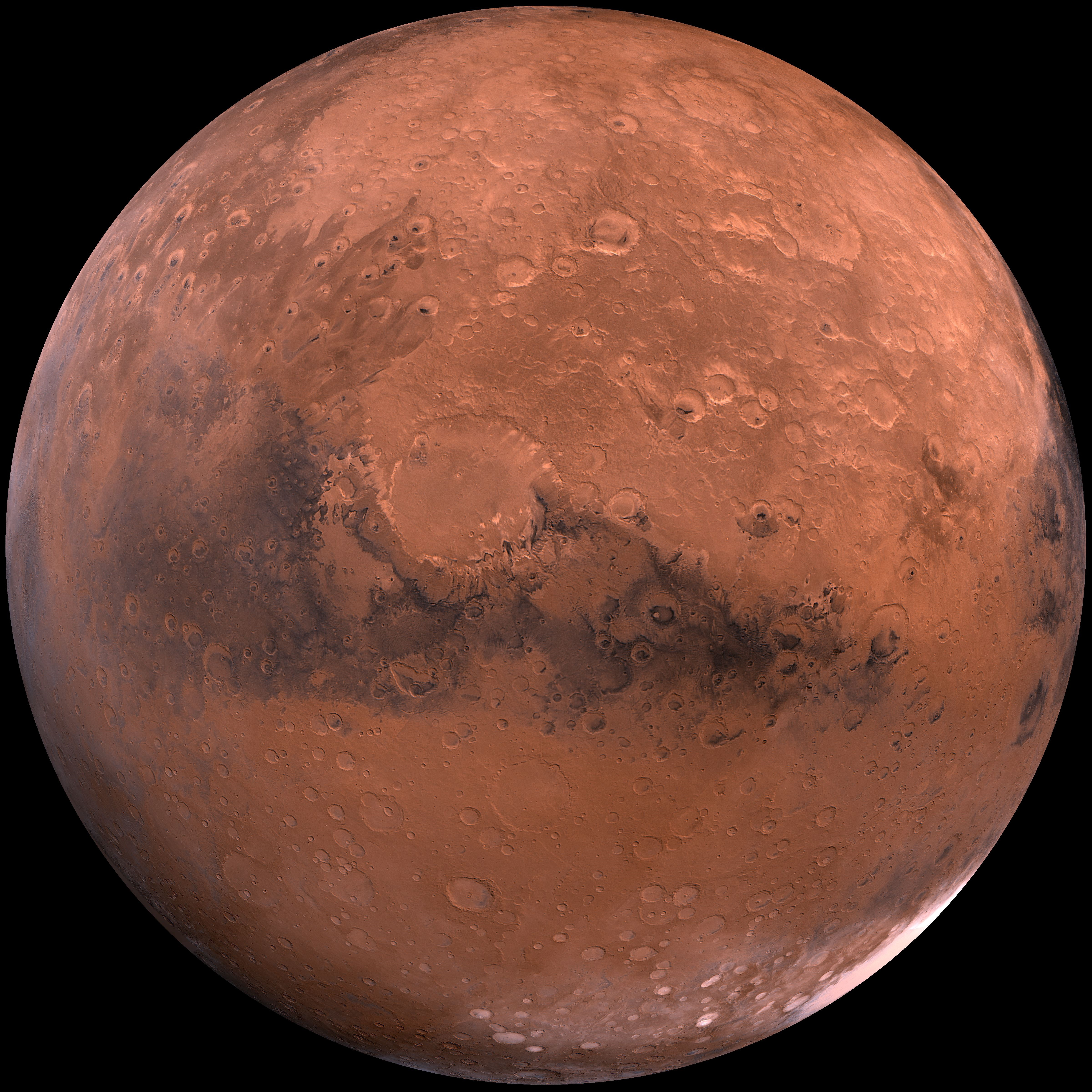 Mosaic of the Schiaparelli hemisphere of Mars projected into point perspective, a view similar to that which one would see from a spacecraft. The images were acquired in 1980 during an early northern summer on Mars. The image centre is near the impact crater Schiaparelli (latitude -3, longitude +343) The limits of this mosaic are approximately latitude -60 to +60 and longitude +260 to +30. The color variations have been enhanced by a factor of two, and the large-scale brightness normalized by large-scale filtering. The large circular area (near top) is known as Arabia. The boundary between the ancient, heavily-cratered southern highlands and the younger northern plains occurs far to the north (latitude +40) on this side of the planet, just north of Arabia. The dark streaks with bright margins emanating from craters in the Oxia Palus region (to the left of Arabia) are caused by erosion and/or deposition by wind. The dark area on the far right, called Syrtis Major Planum, is a low-relief volcanic shield of probable basaltic composition. Bright white areas to the south, including the Hellas impact basin at lower right, are covered by carbon dioxide frost.